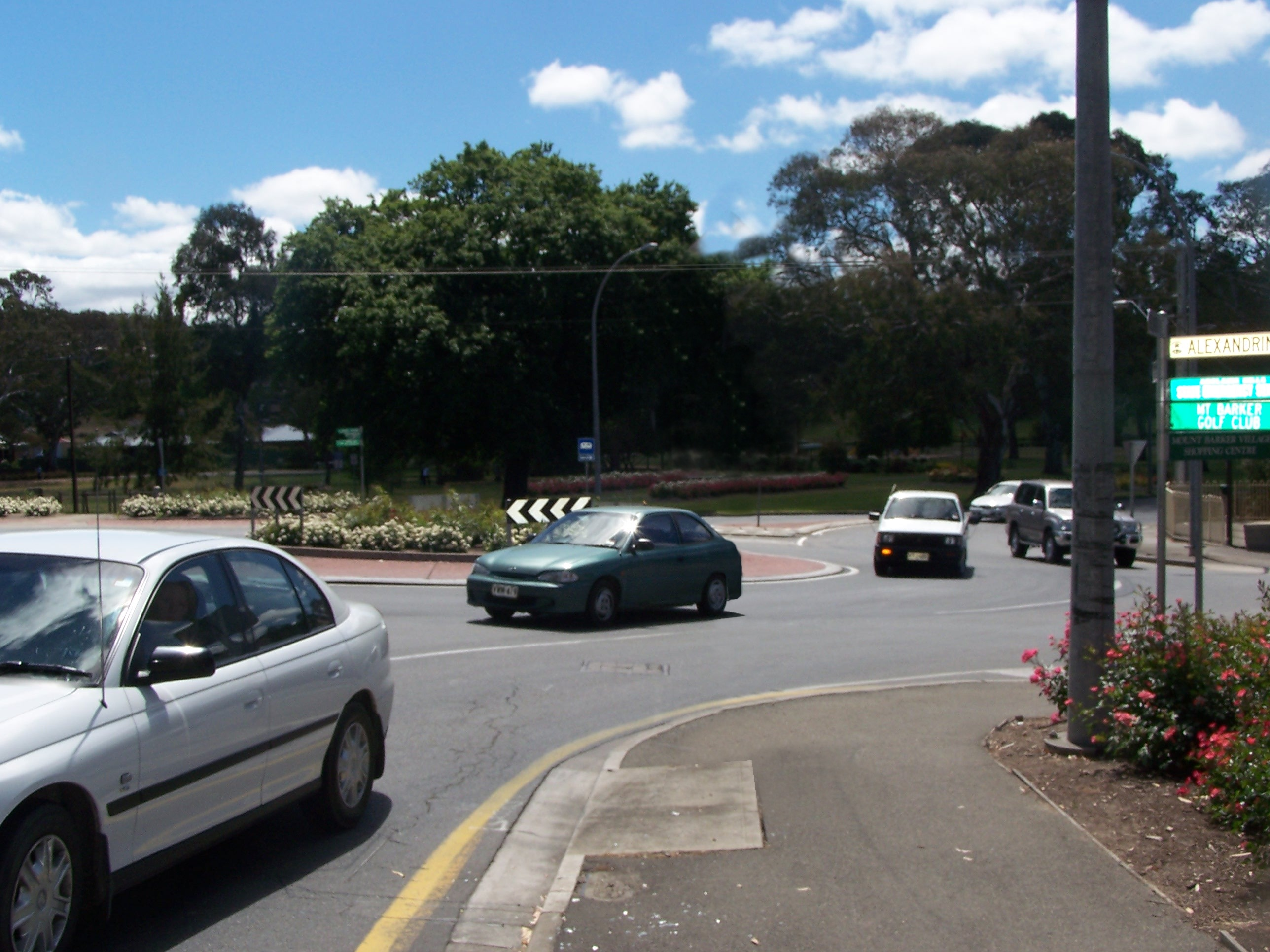 This is the roundabout, outside of the Mount Barker high school. It was taken by Josh Heidenreich on the 4th of November 2006 using a Kodak z7590 at 5 megapixels in automatic mode. The following edits were made: Removal of signpost in middle of picture Gaussian blur on numberplates Colour levels adjusted slightly. Category:Images of Mount Barker